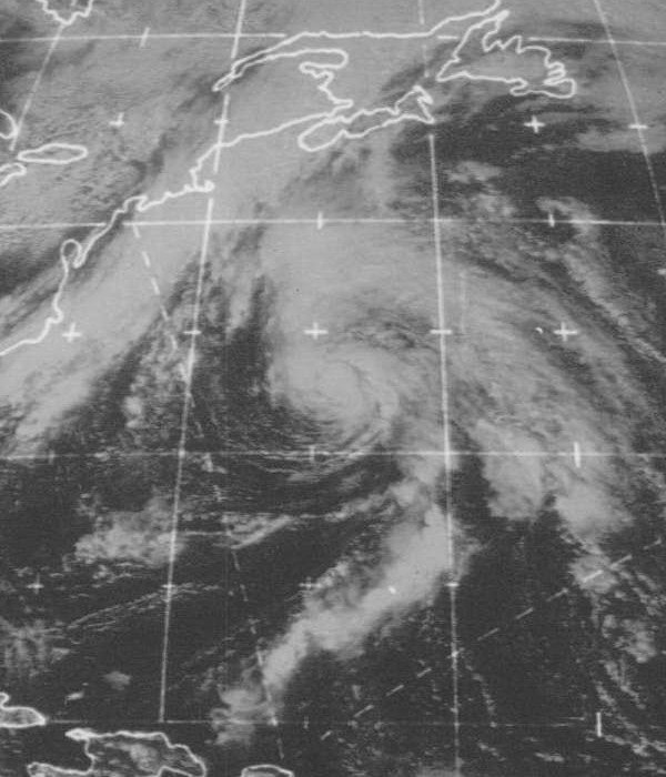 Hurricane Eighteen on October 16, 1970